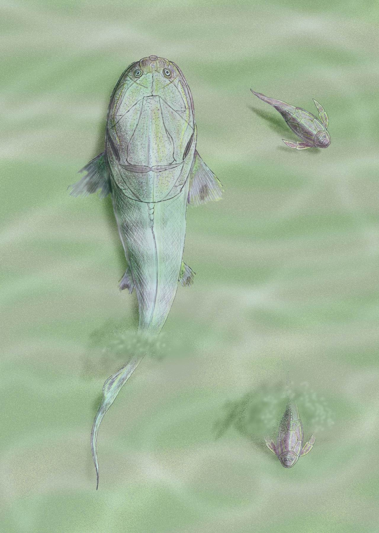 Homosteus milleri (jr synonym Homostius milleri) with two Pterichthyodes milleri beside